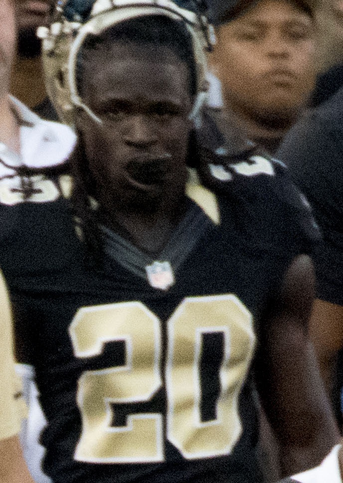 Saints at Ravens 8/13/15